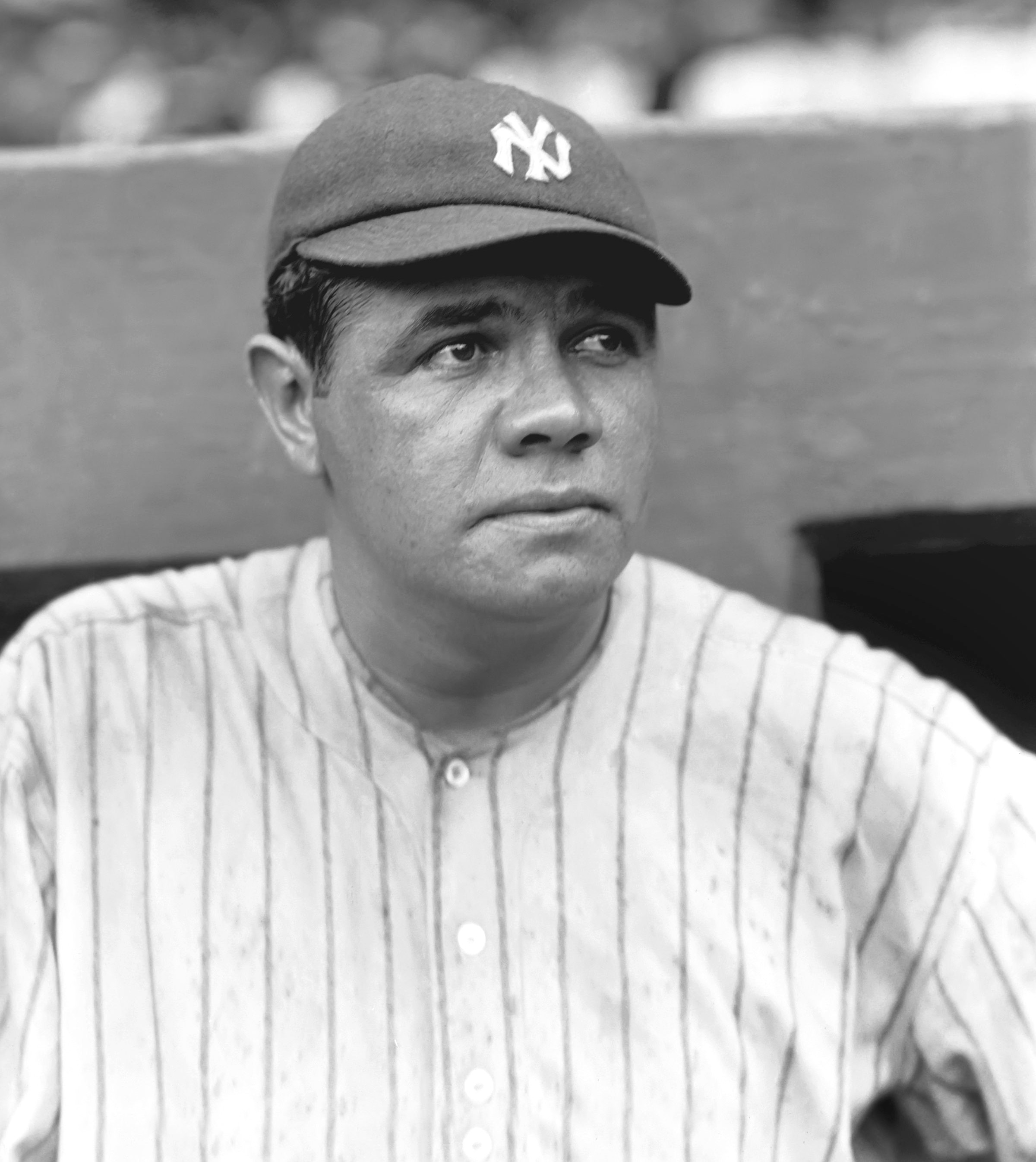 Professional baseball player Babe Ruth